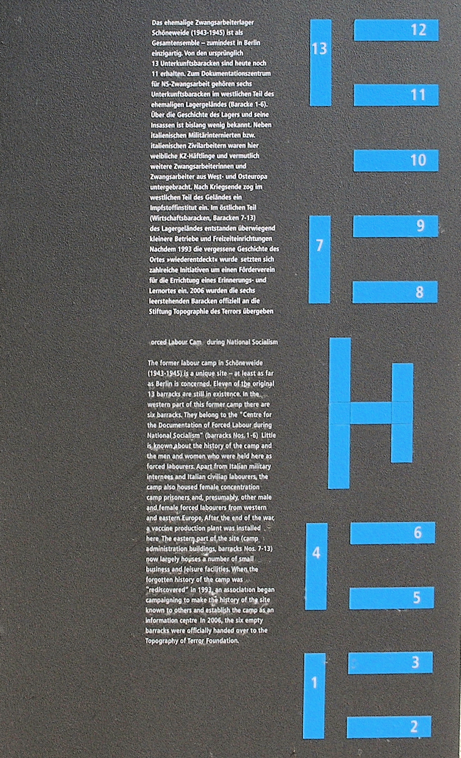 Memorial stele, Arbeitslager Schöneweide, Britzer Straße 5, Berlin-Niederschöneweide, Germany